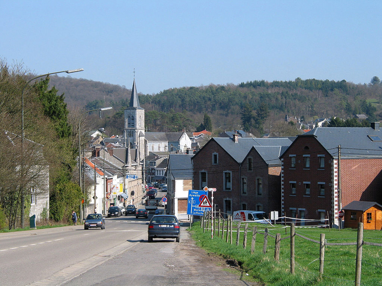 Barvaux (Belgium): overall view.